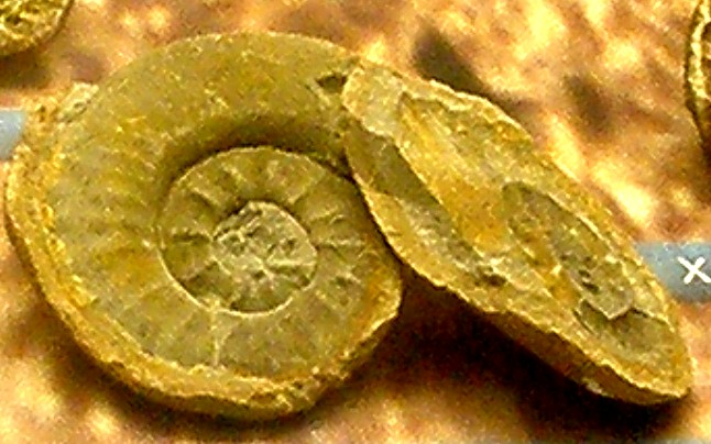 Fossil of Xenodiscus besairiei, an extinct mollusc